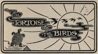 Richard Heighway's title for Aesop's fable in the collection by Joseph Jacobs, 1894